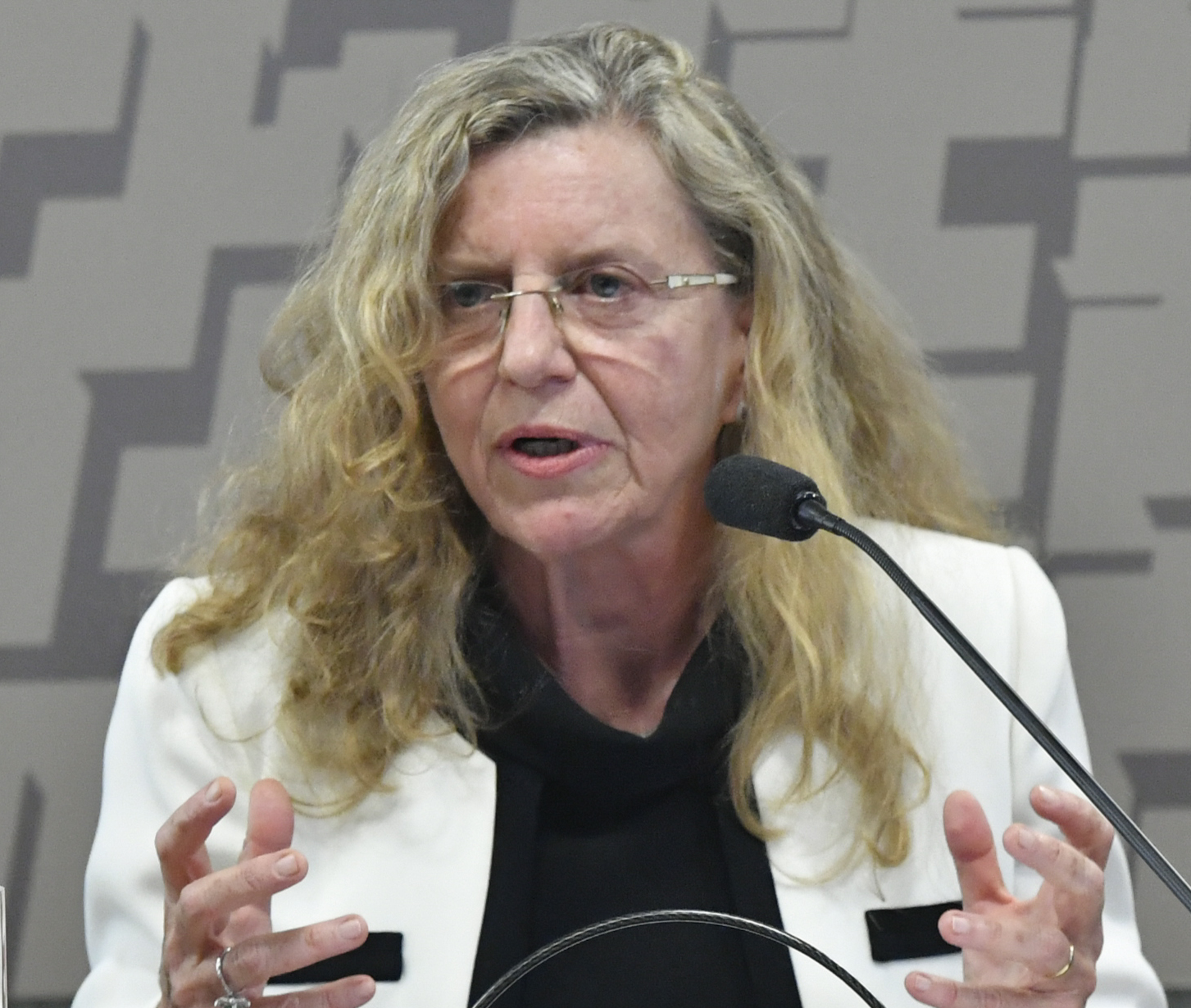 Brazilian Ambassador to Guatemala Vera Cintia Álvarez